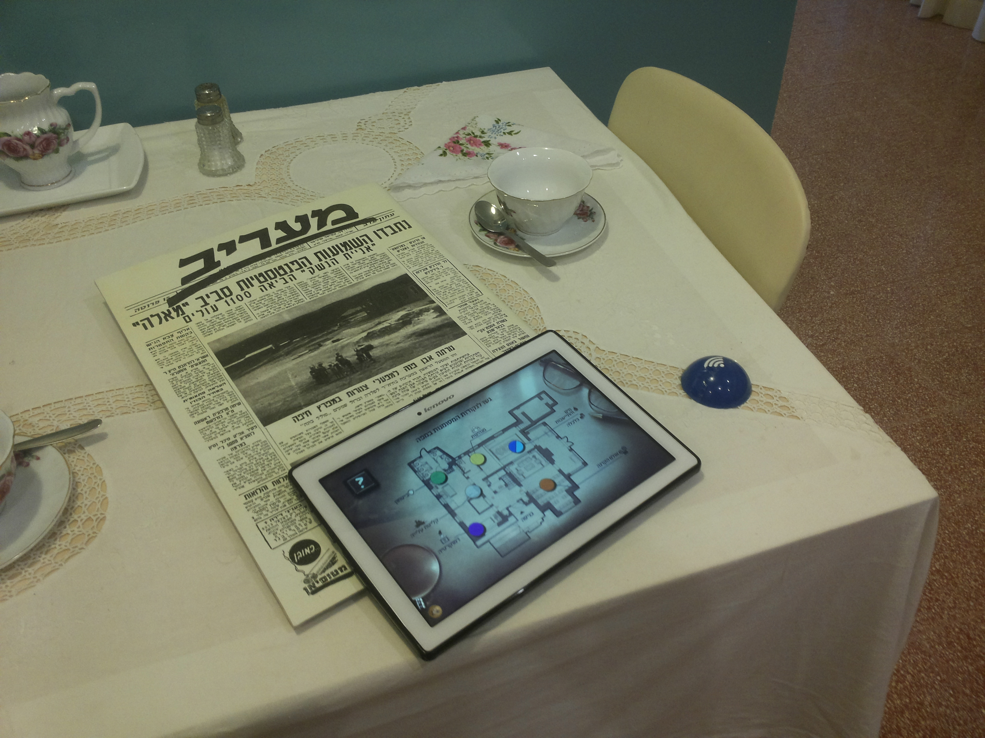 The Levi Eshkol Visitors' Center in Jersauelm, operated by Yad Levi Eshkol